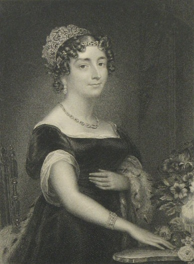 Her Grace, Charlotte Florentia, Duchess of Northumberland, Stipple engraving by T.A.Dean after Mrs Robertson Published by Whittacker & Co. in La Belle Assemblee (new series) No49 for January 1829. Proofs by M.Colnaghi 23 Cockspur Street, London.